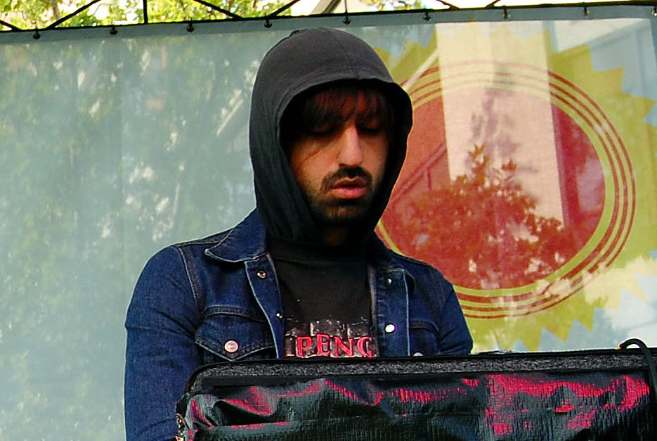 Ethan Kath performing with Crystal Castles at the Popped! Music Festival in University City, Philadelphia.